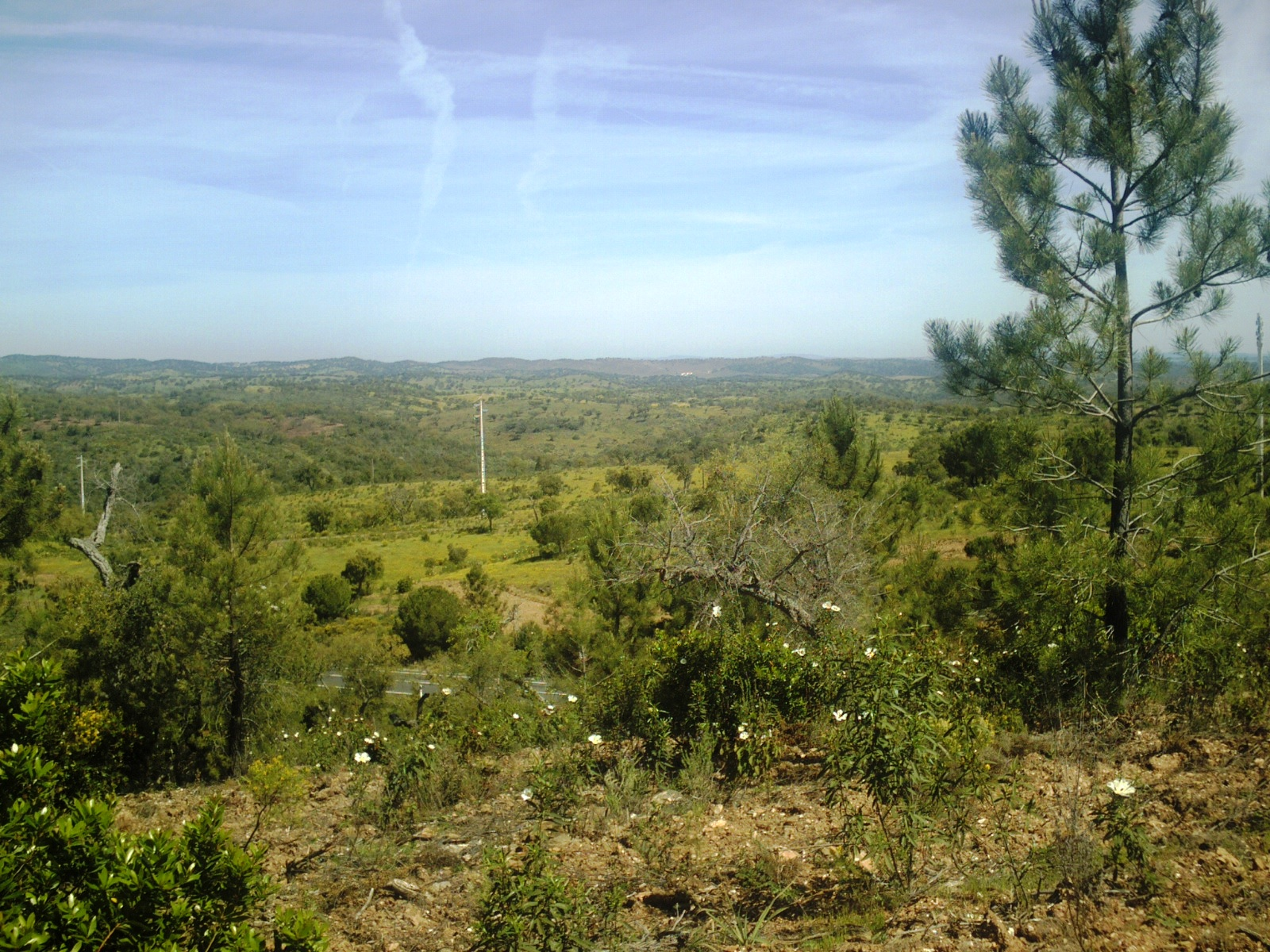 Landscapes of Alentejo montado in Portugal